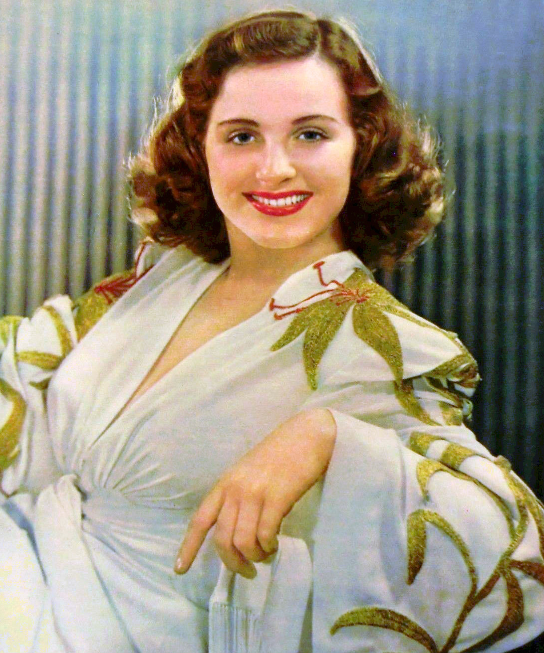 Photo of Constance Moore published by the New York Sunday News in 1941. Dating is at upper right of uncropped photo.